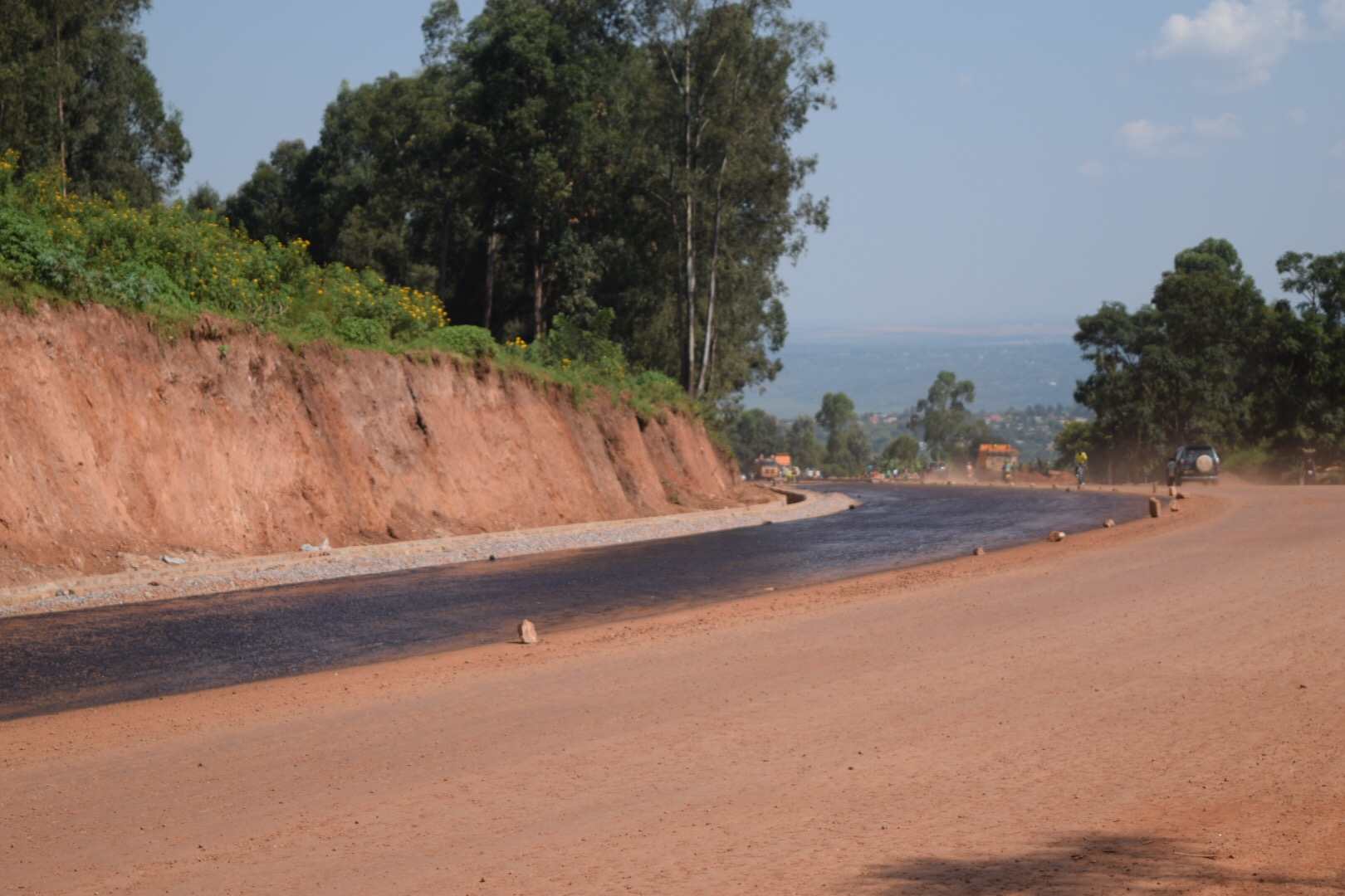 The construction of a Road in Rwanda which will be used for transportation of goods and people from kigali to bugesera. Kinyarwanda: Umuhanda uri kubakwa uzafasha gutwara abantu nibintu kuva kigali ujya bugesera. This is an image with the theme "Africa on the Move or Transport" from: Rwanda